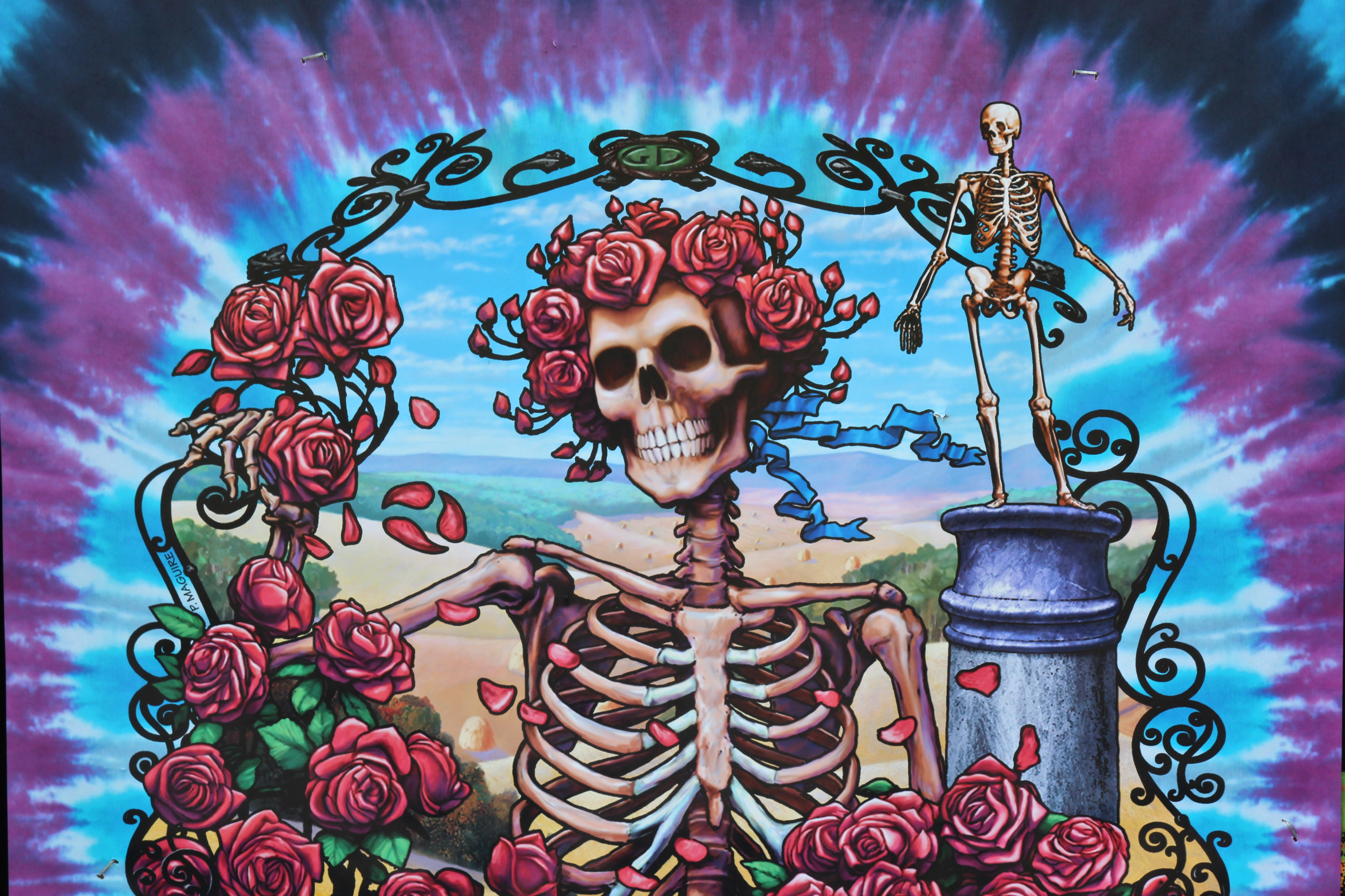 Seaside Heights, New Jersey